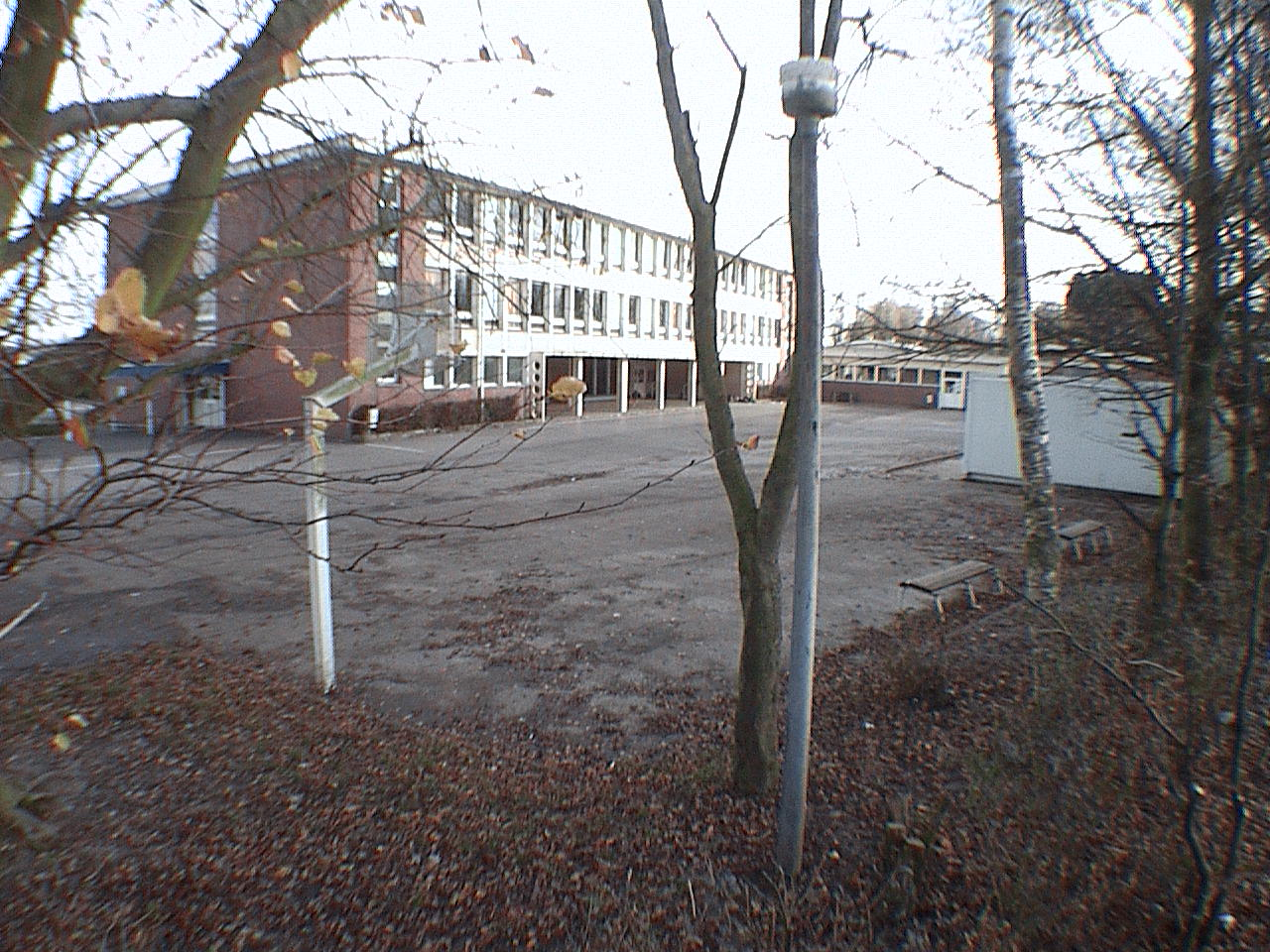 College Antoine de Saint-Exupéry, established in 1971 in Steenvoorde, French Flanders, France. Ministère de l'Education/Ministry of Education listing site de l'école/School website